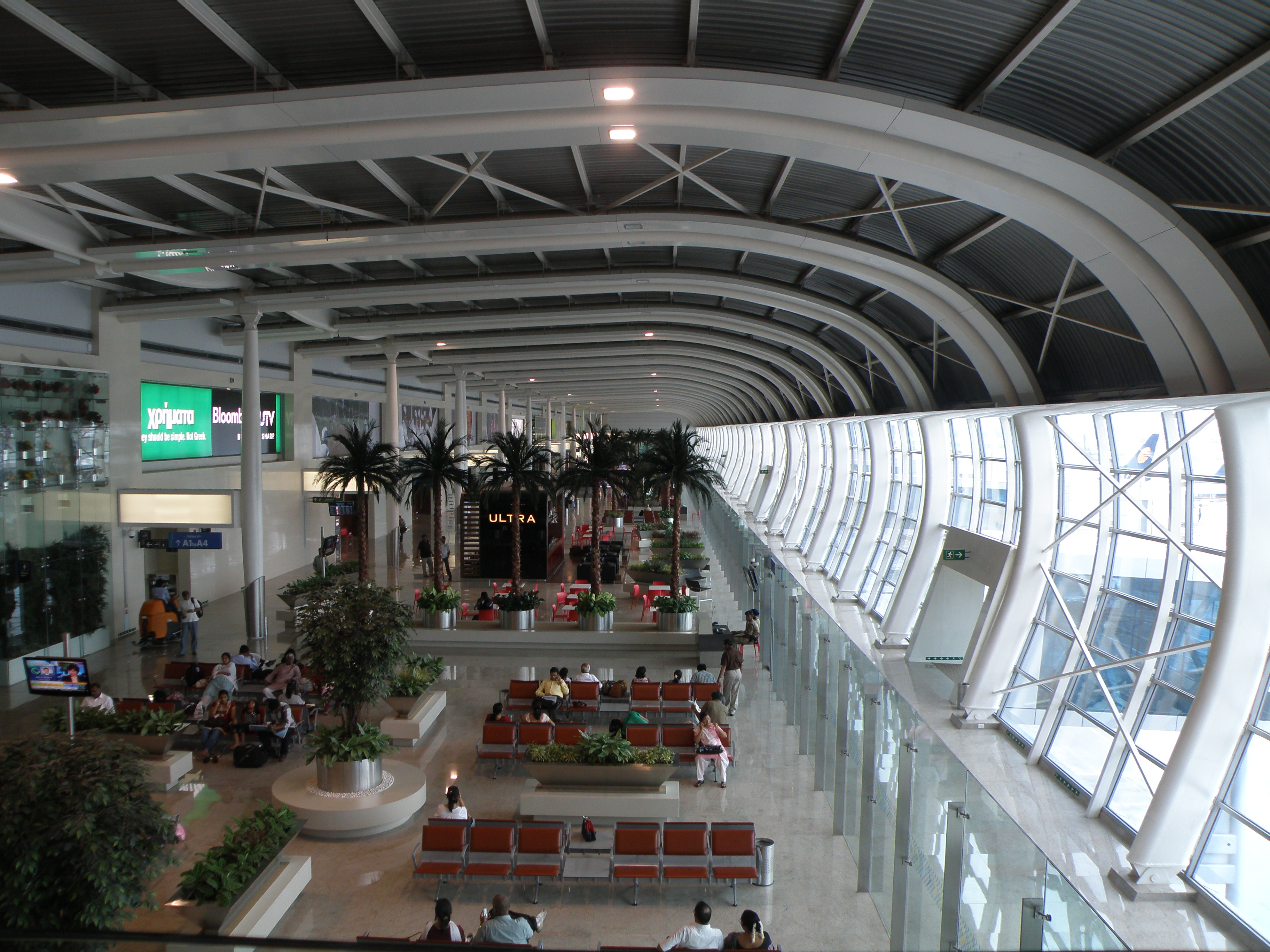 Domestic departure terminal 1C of Chhatrapati Shivaji International Airport